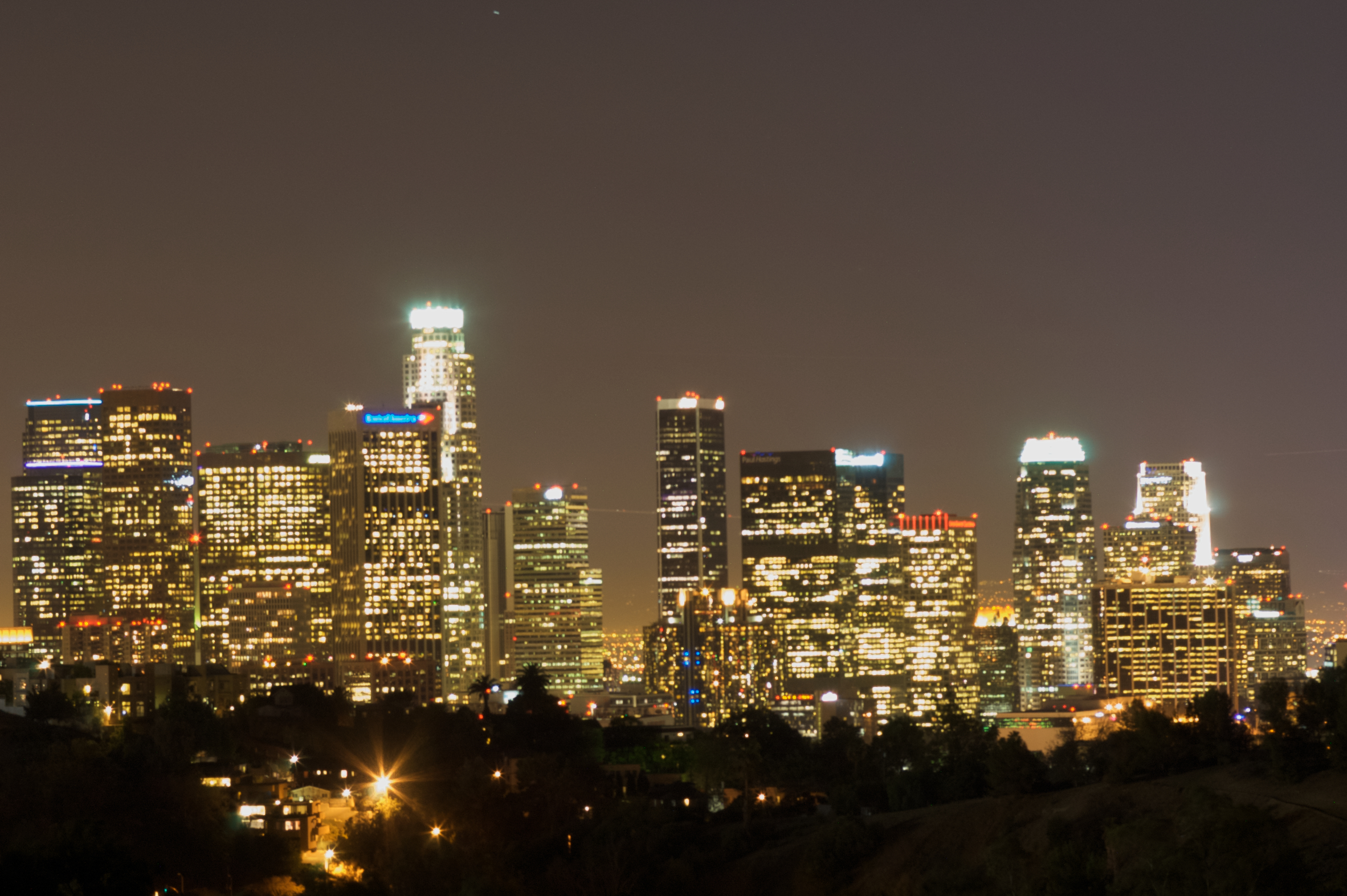 Los Angeles Skyline at Night